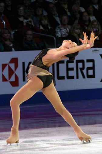 Kim Yu-Na (KOR) at the 2009 World Figure Skating Championships exhibition.